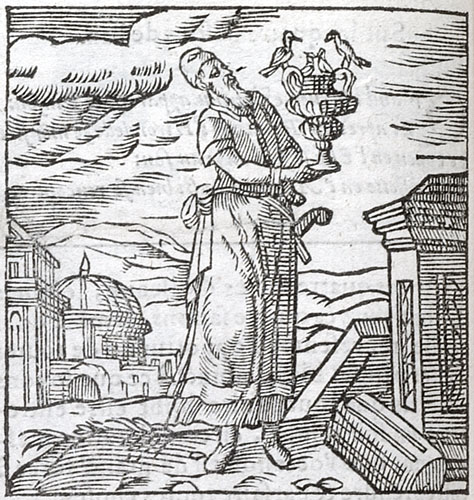 „Les emblemes“. Paris 1584, p. 139.